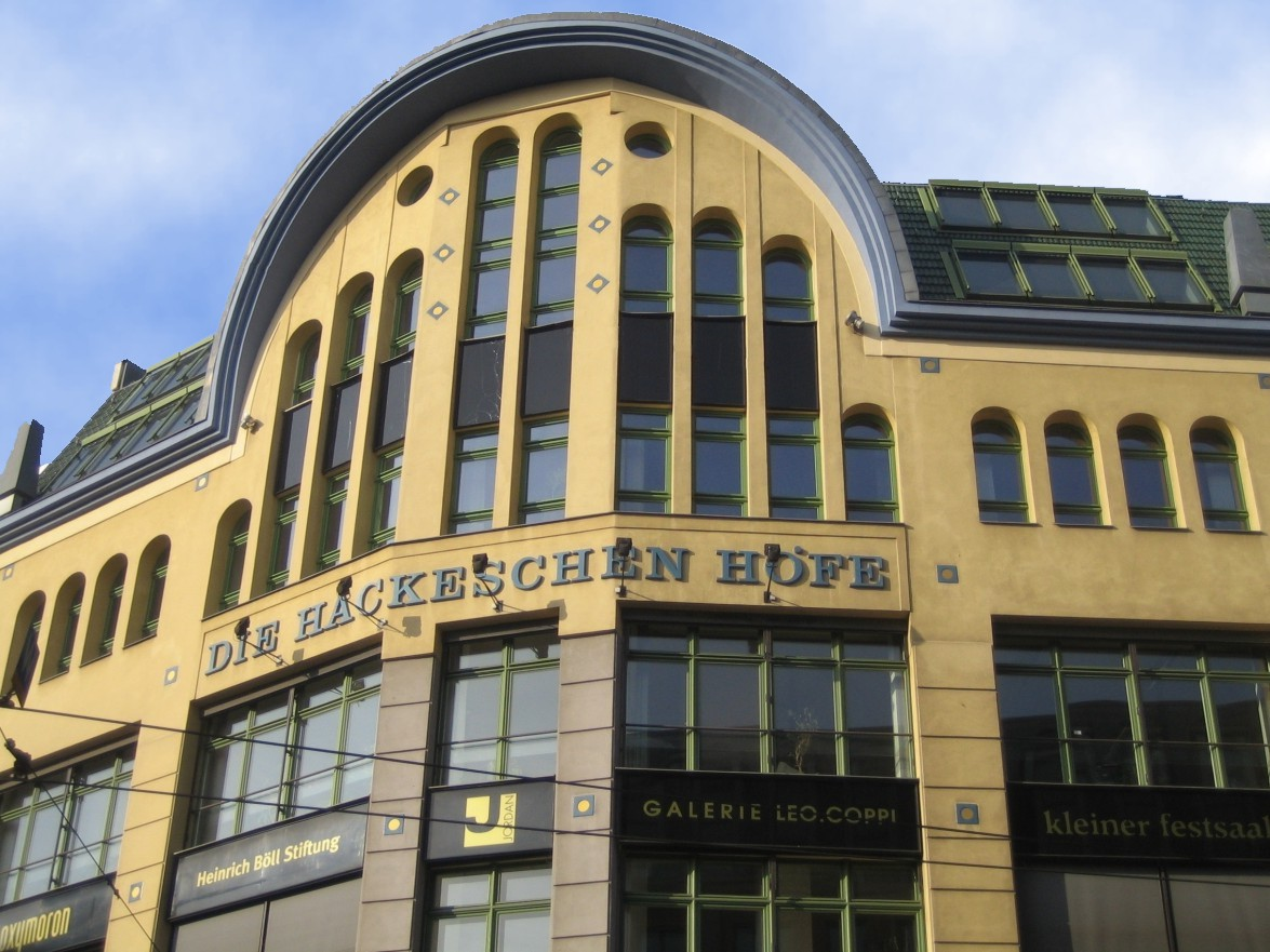 The "Hackesche Höfe" in Berlin, first facade in street direction